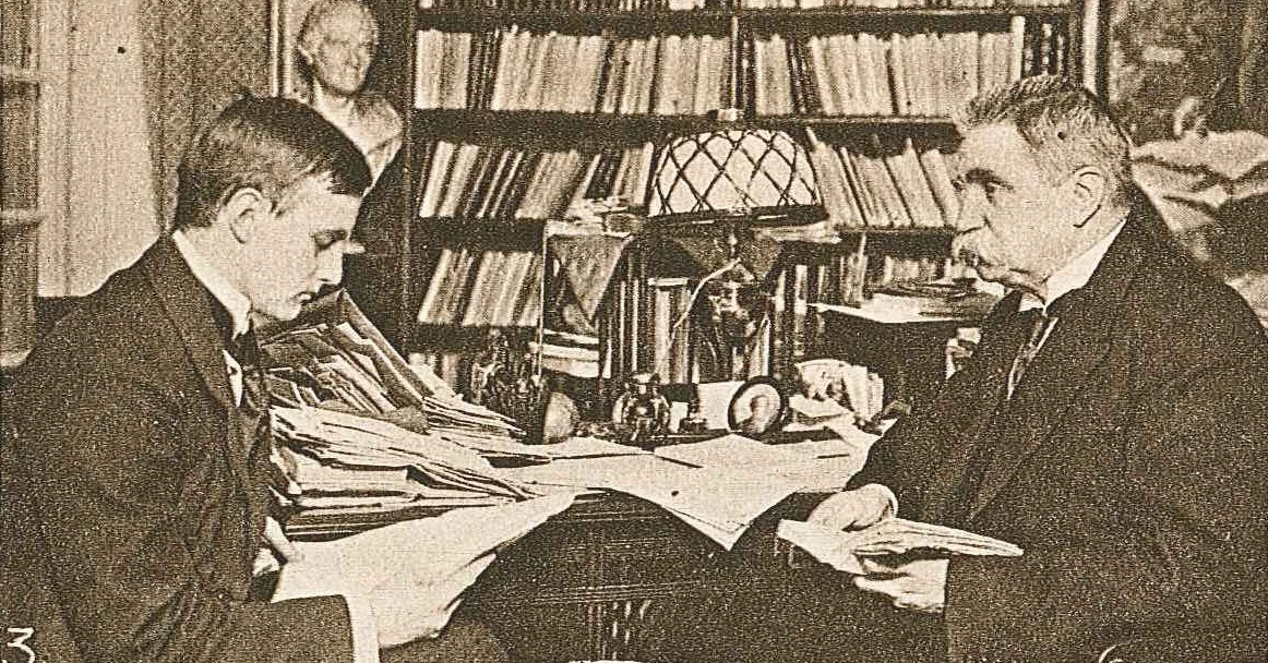 Swedish social democrats (and father and son) Georg Branting (1887-1965) and Hjalmar Branting (1860-1925) working on a translation of a book by French socialist Jean Jaurès in 1916.